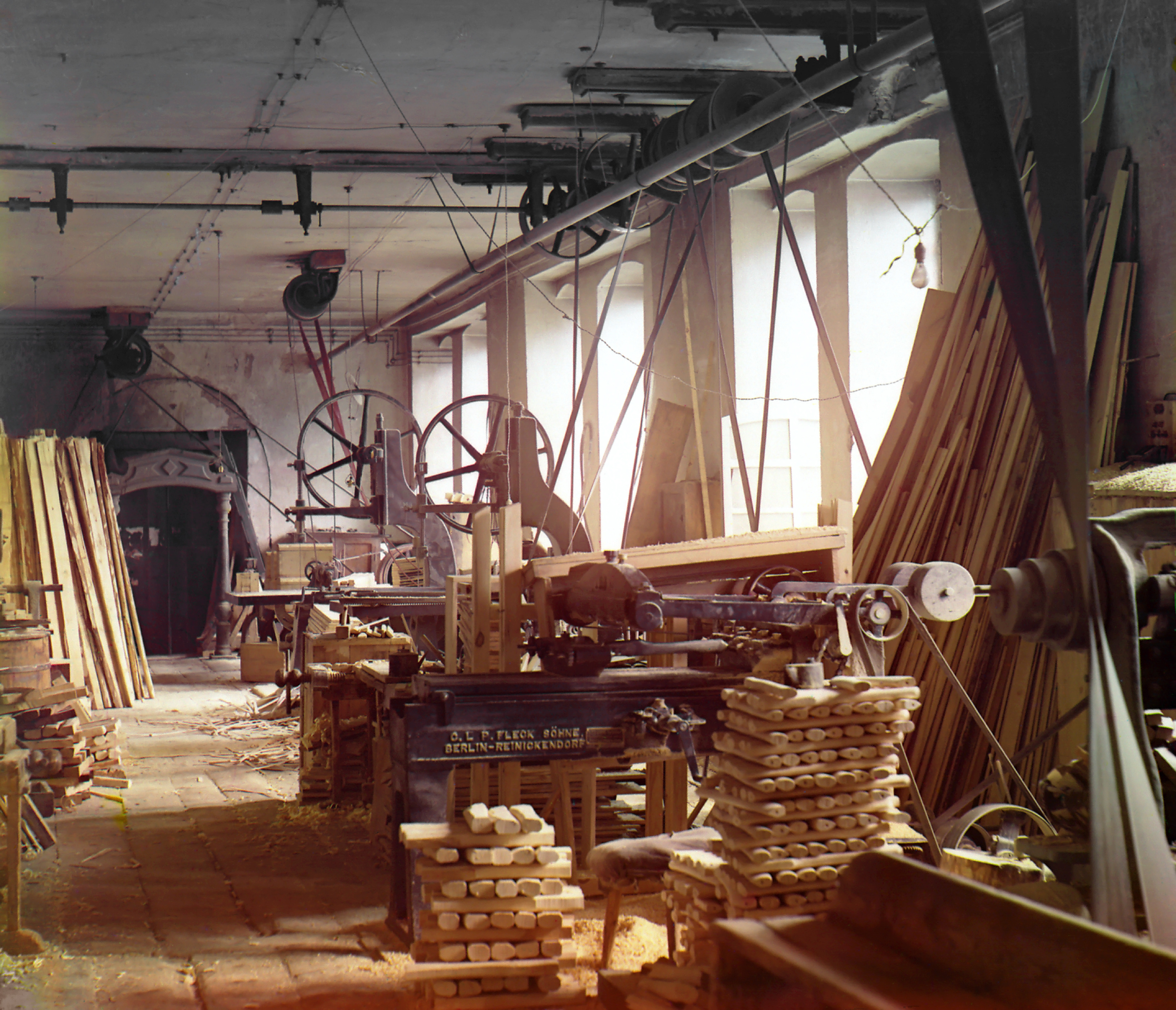 Original Description: Joining shop for the production of scabbards at the Zlatoust plant.